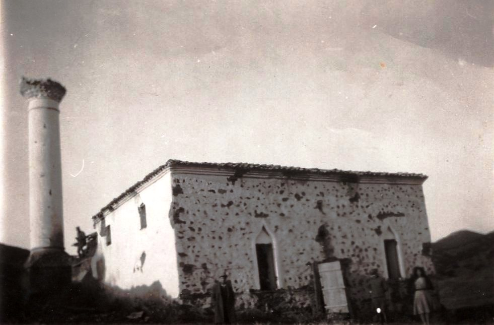 An old mosque in the village Josifovo, 1931 This media file is produced by Wikipedian in Residence in Category:Wikipedian in Residence at DARM in 2016.